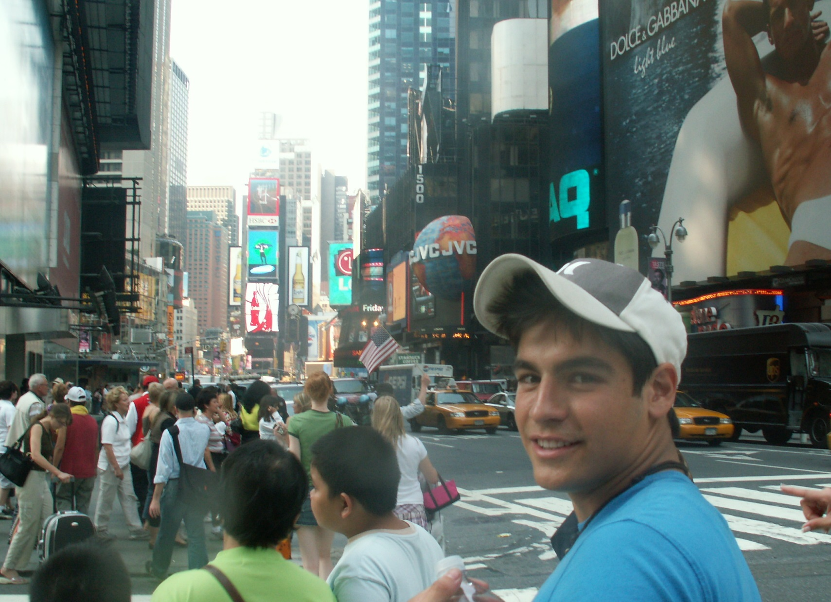 JC Gonzalez walking down Fifth Avenue in Manhattan, New York